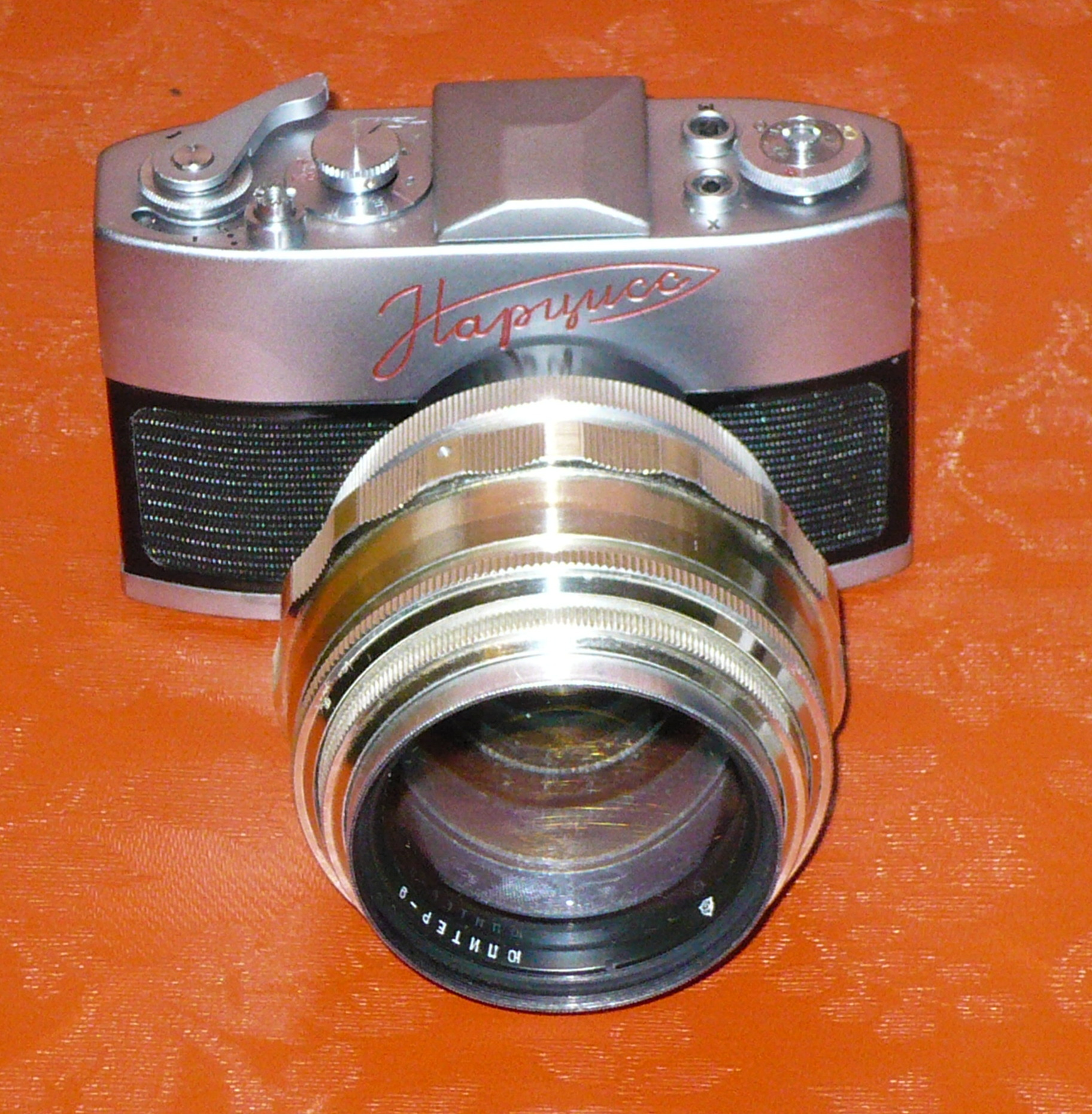 KMZ Narciss with Jupiter-9 85mm/2 lens